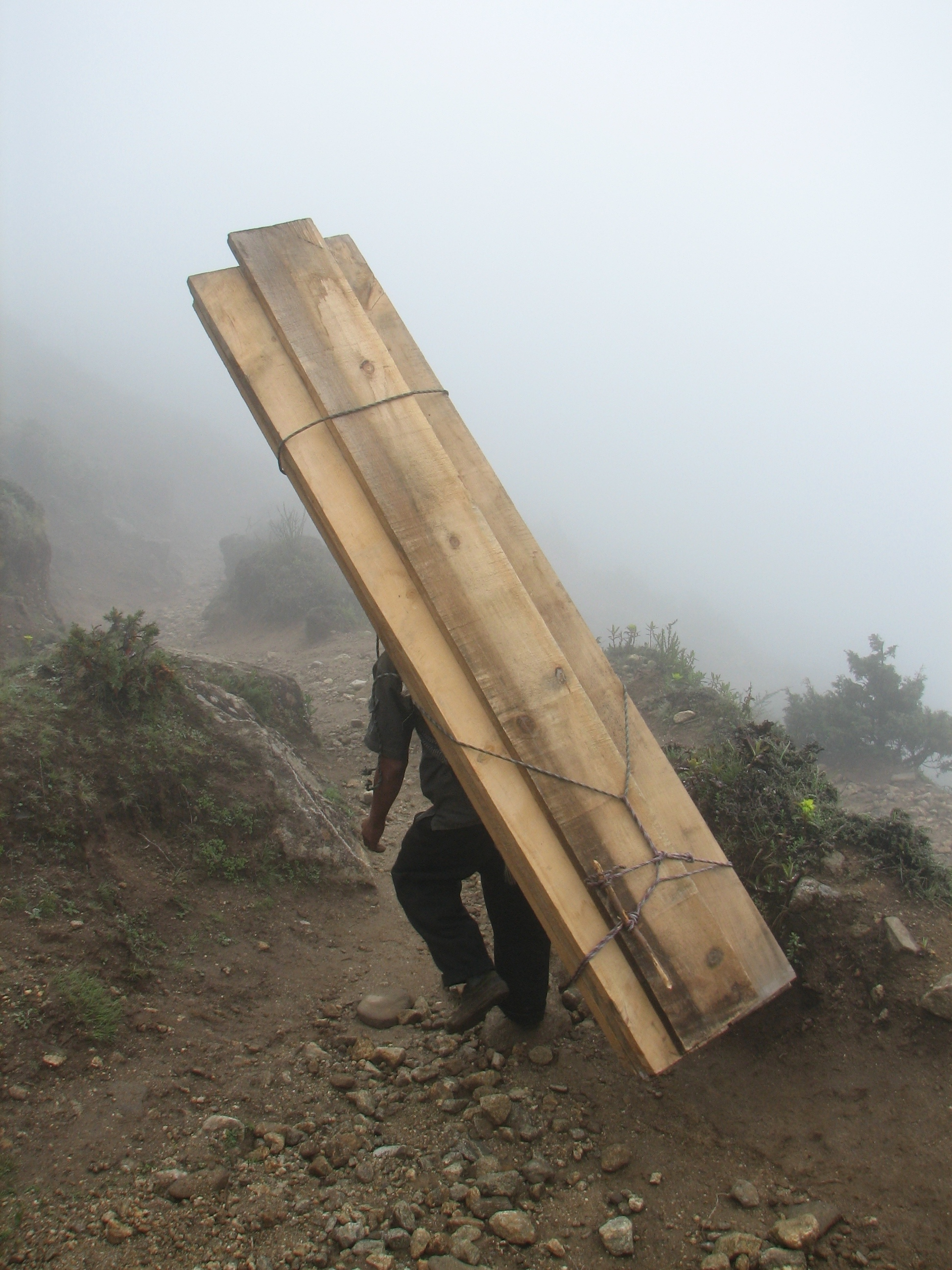 I took this picture on my way to Mount Everest base camp in May, 2006. Ilan Adler.